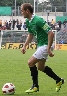 Konstantin Rausch in 2011 while playing for Hannover 96 vs Anker Wismar